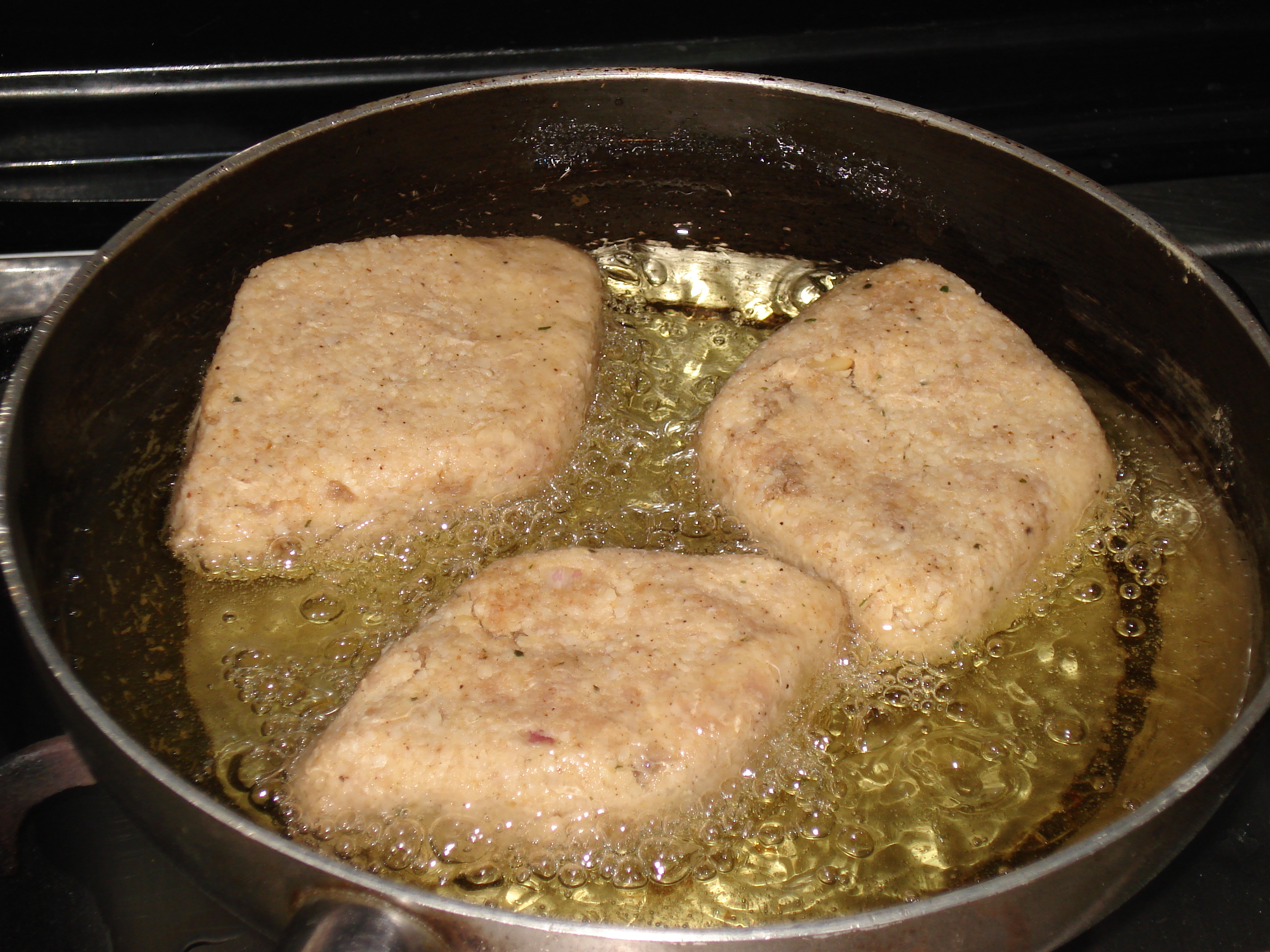 this shows frying of kibbe